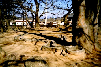 Poseokjeong, Gyeongju, South Korea.